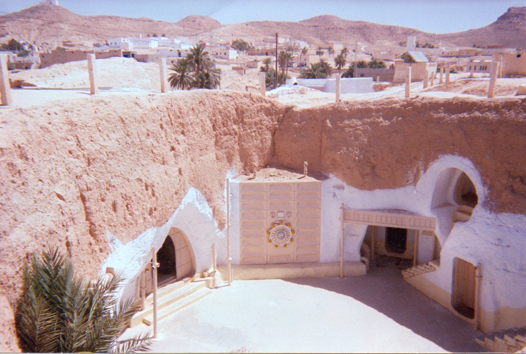 A set of Star Wars in Tunisia